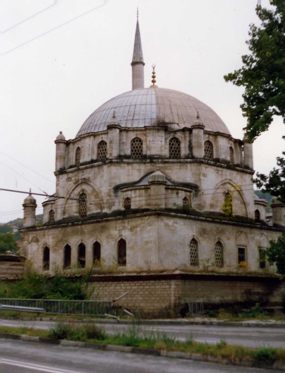 Tombul Mosque in Shumen, Bulgaria, October 1993